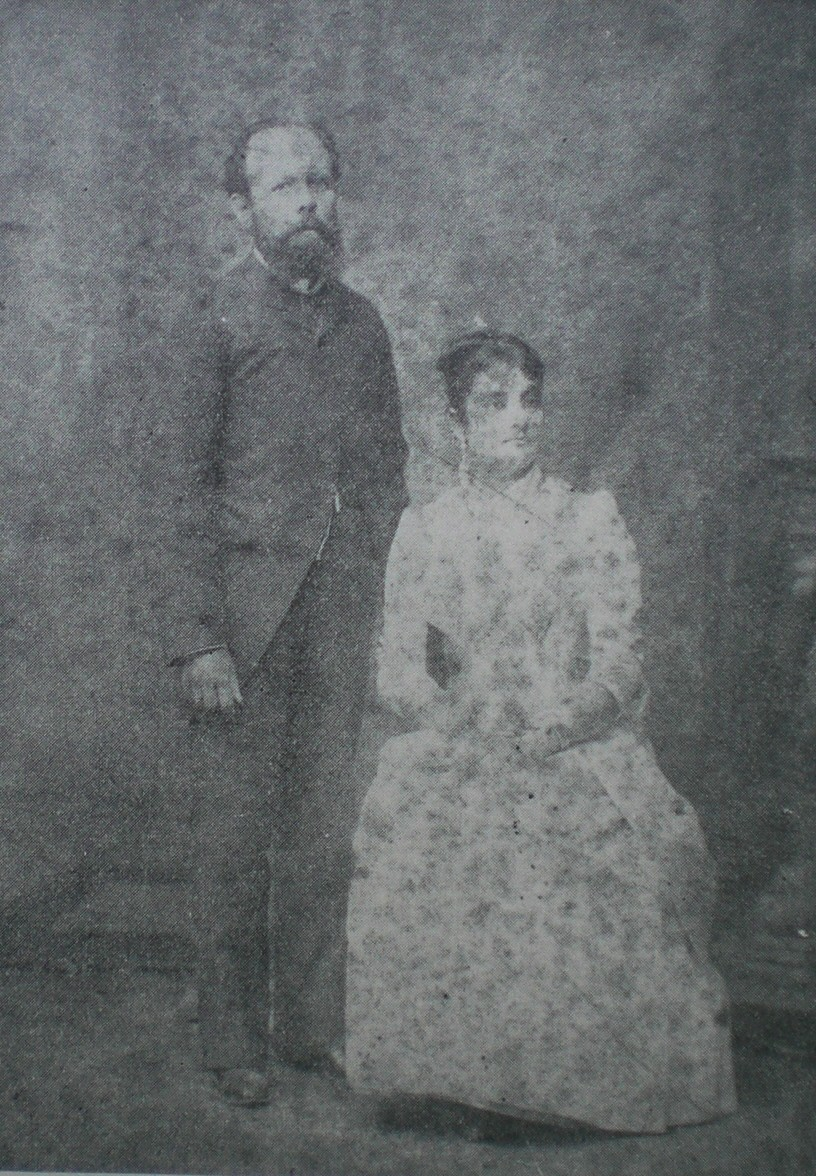 Ignacio Andrade and his wife Isabel Sosa Saa.